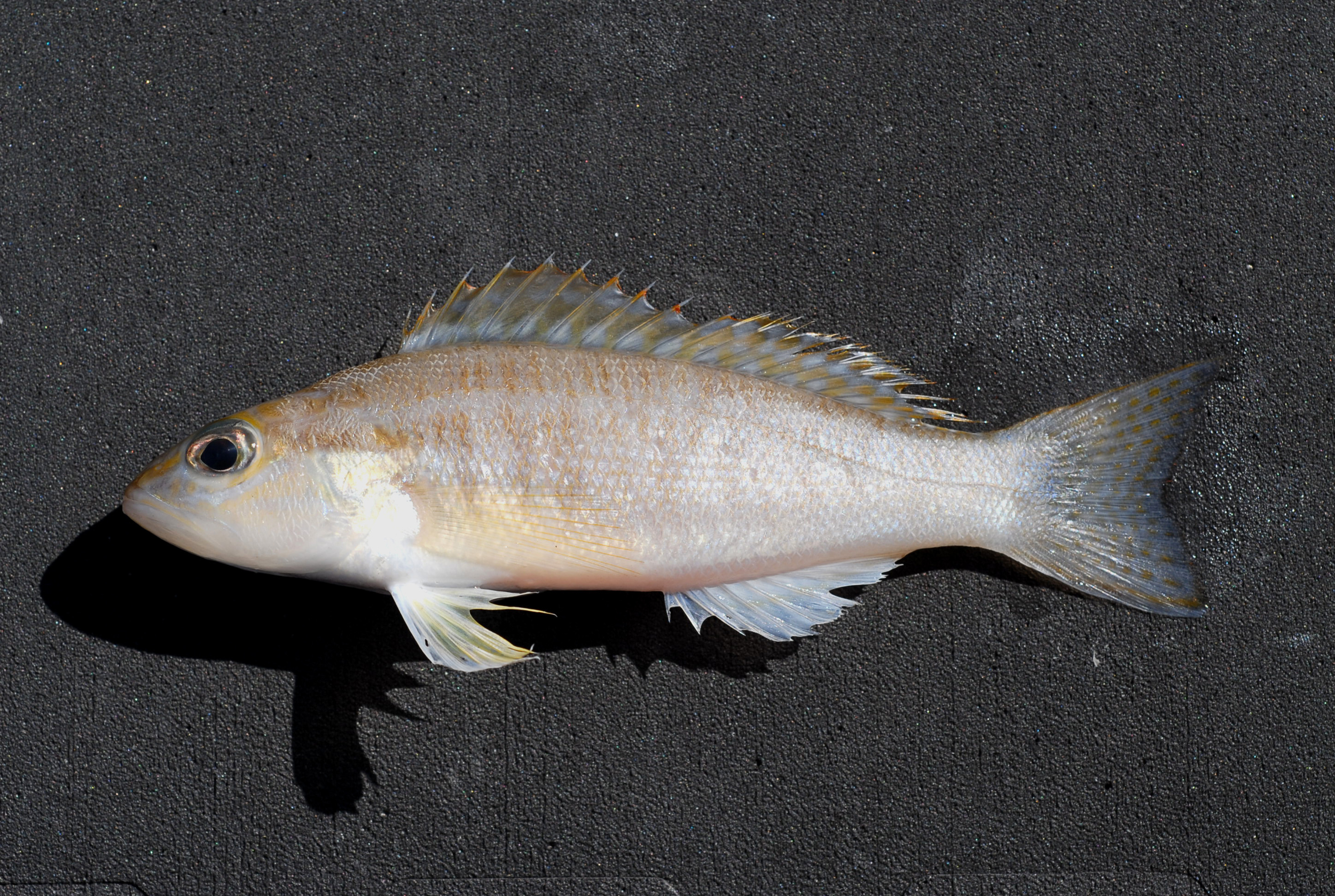 Diplectrum bivittatum from the Gulf of Mexico